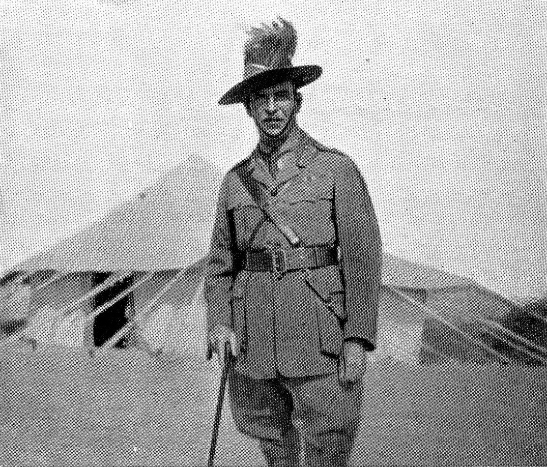 Picture of Lt. General Sir Harry Chauvel, K.C.B., K.C.M.G.